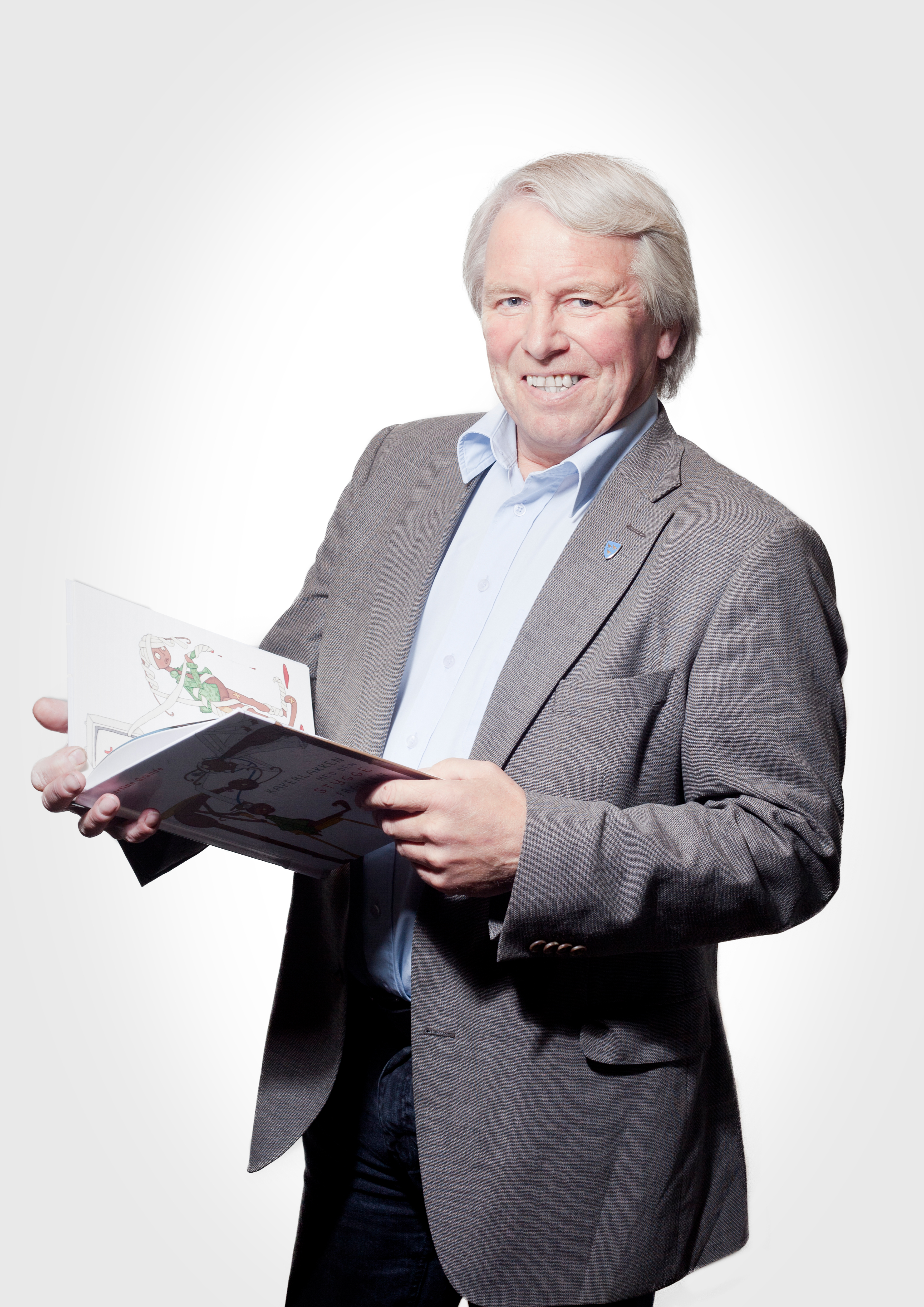 Depicted person: Alf Robert Arvasli – Norwegian politician and farmer